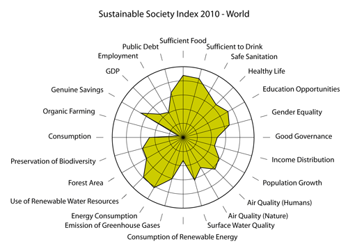 Spiderweb SSI 2010